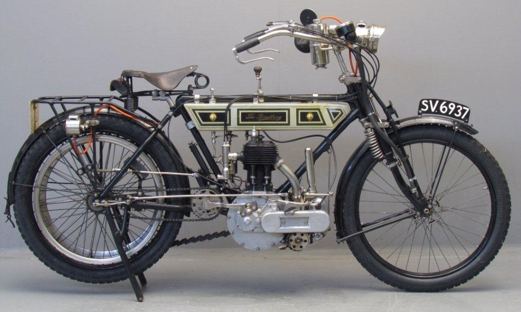 Bradbury 554 cc 4 hp side valve motorcycle from 1912